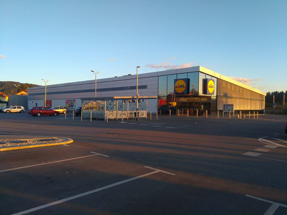 Lidl store in Zaprešić, Croatia